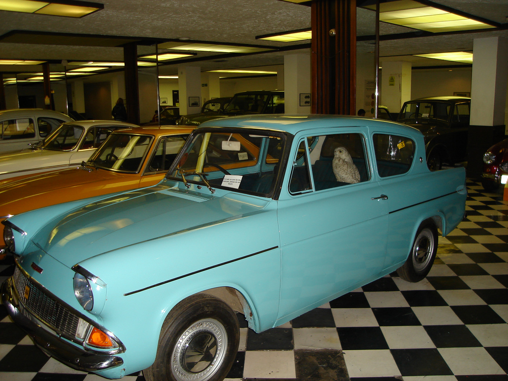 Notice the owl in the back seat